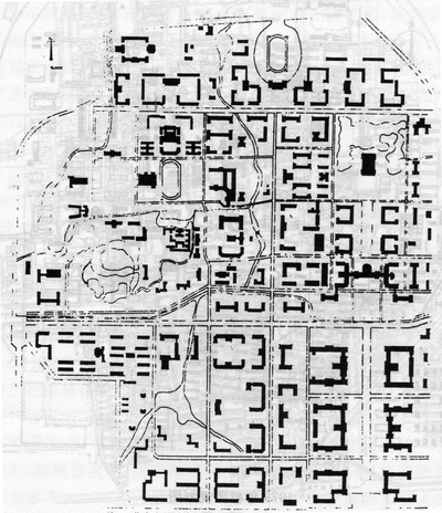 The Campus Plan of Tsinghua University, 1960.